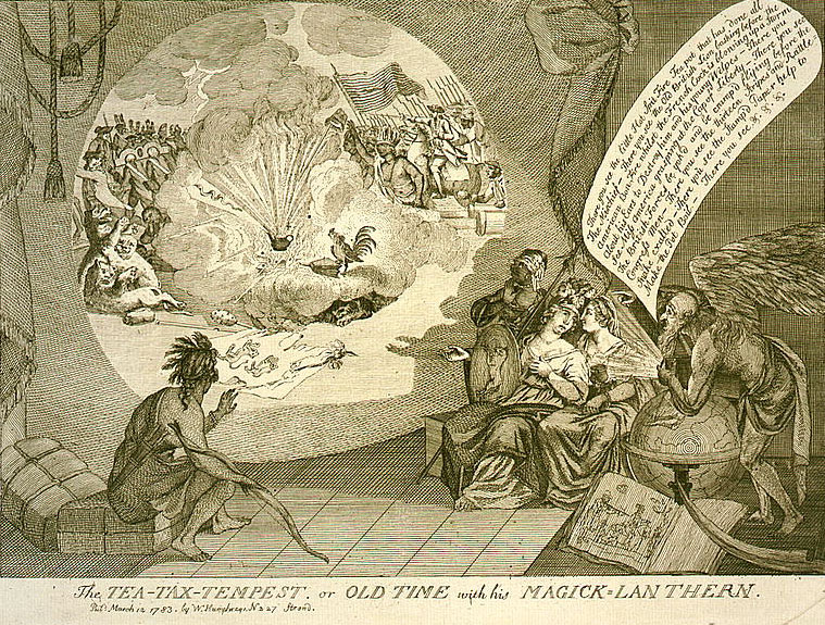 German artist Carl Guttenberg's 1778 engraving of an exploding teapot to represent the American Revolution. Father Time, on the right, flashes a magic lantern picture of an exploding teapot to America on the left and Britannia on the right, with British and American forces advancing towards each other.